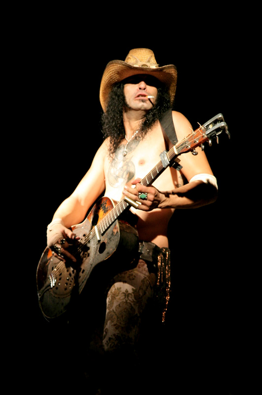 eric sardinas & big motor, trasimeno blues, città della pieve, italy 19/07/2008